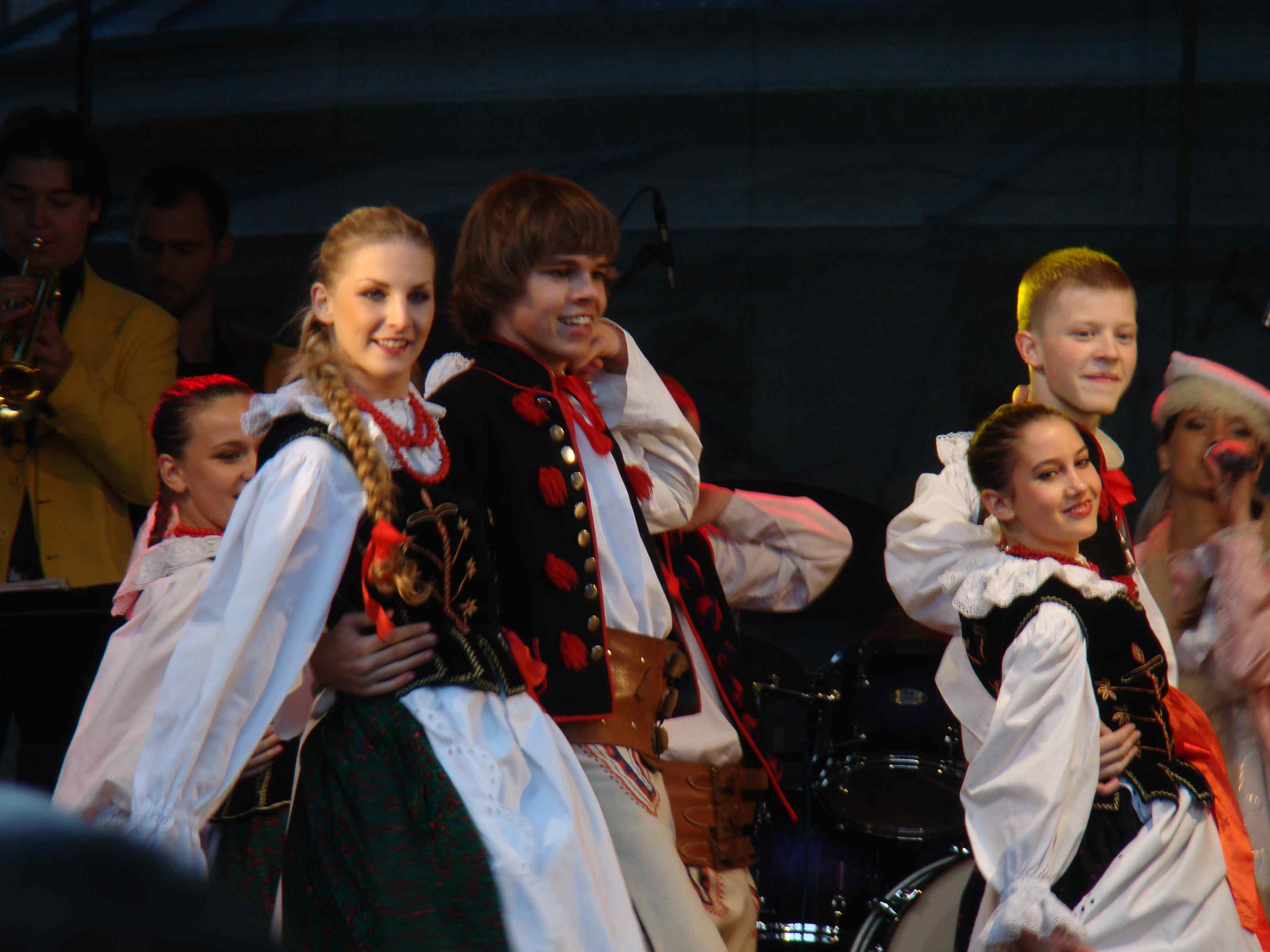 Young Gorals of Zywiec.